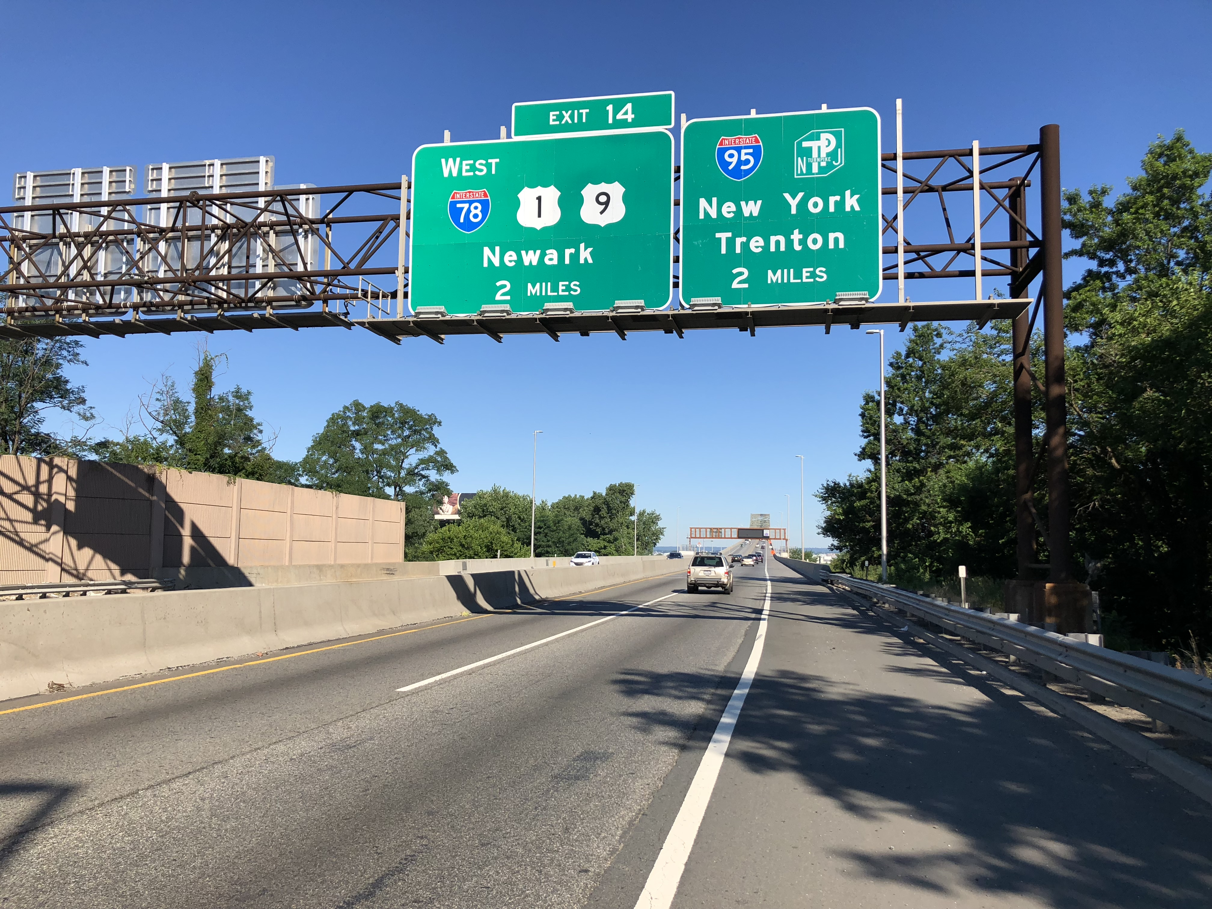 View west along Interstate 78 (New Jersey Turnpike Newark Bay Extension) just west of Exit 14A in Bayonne, Hudson County, New Jersey